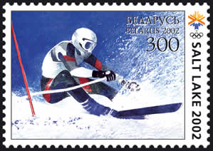 Belarus stamp no. 448, commemorating the 2002 Winter Olympics.